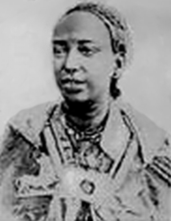 Taitu Bitu, Empress of Ethiopia